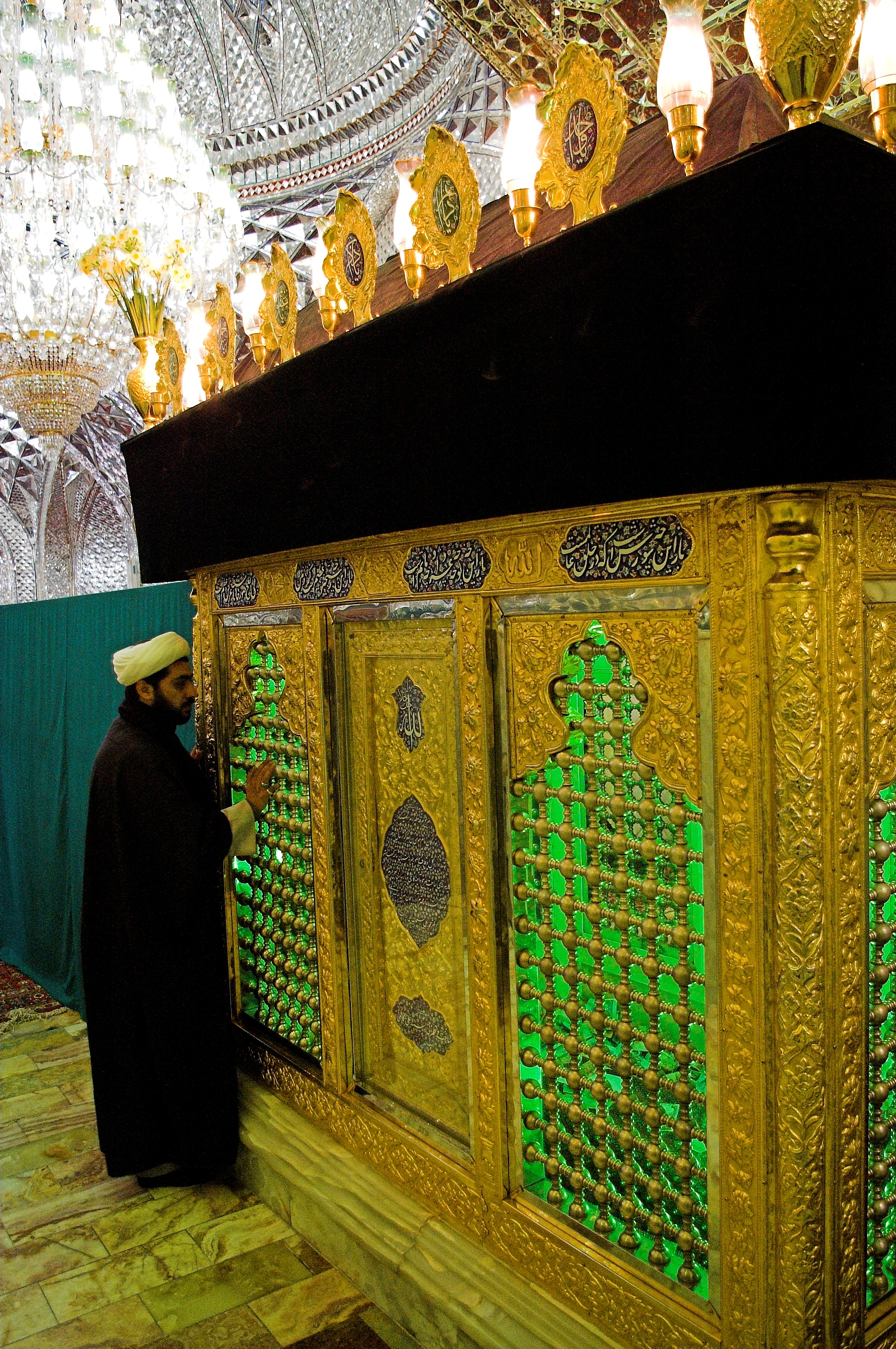 A mollah praying on seyyed Hamza tomb at the Imamzadeh-ye Seyyed Hamza Mausoleum, Tabriz, Iran.